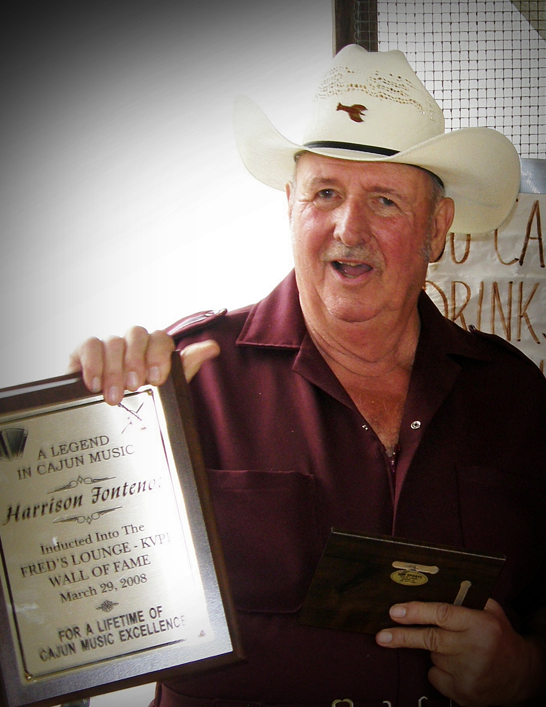 I took this photo of my Dad on the day he was inducted to the Wall of Fame at Fred's Lounge in Mamou, LA.